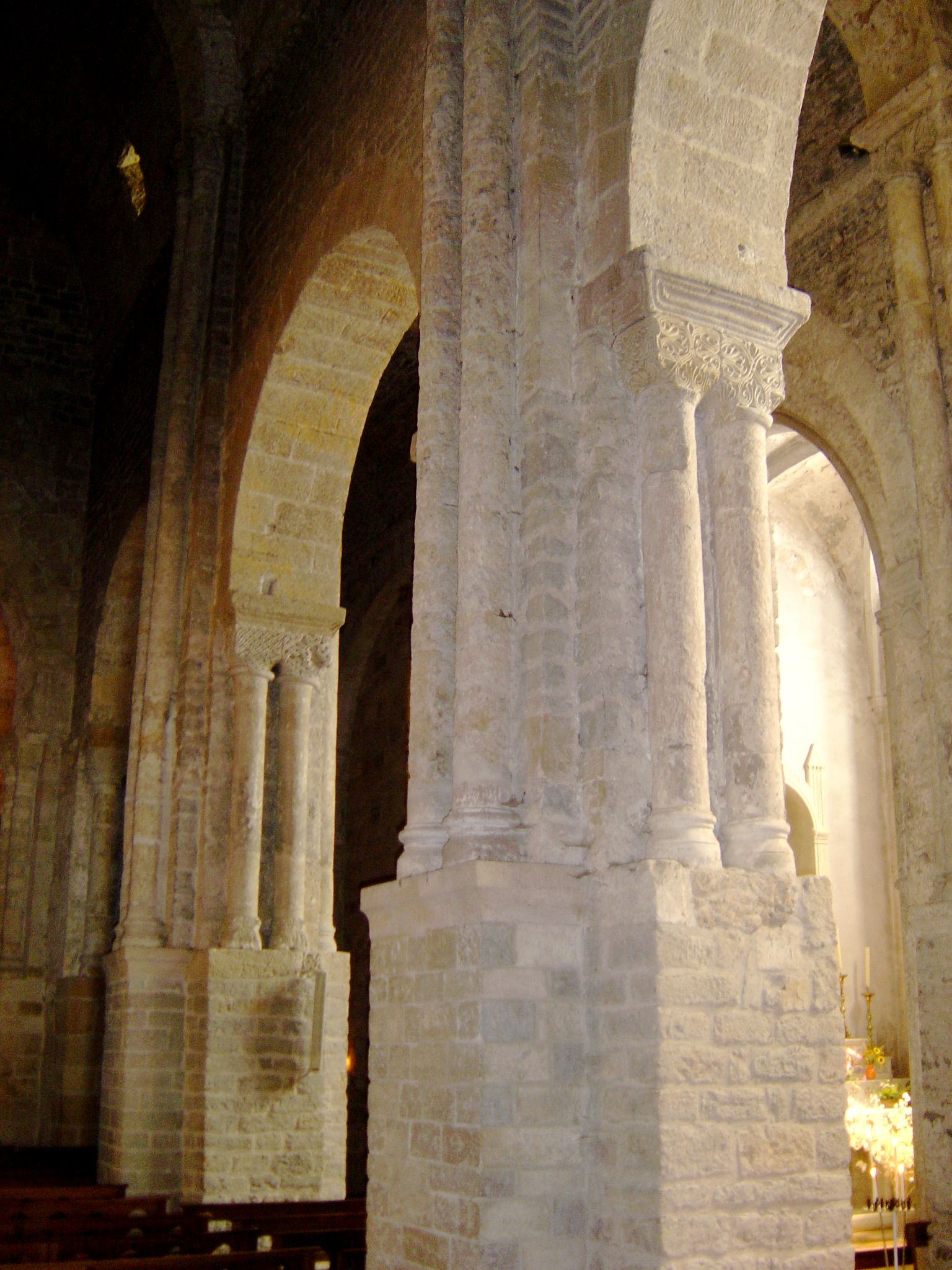 Nant in Aveyron (FRANCE) Inside the church I took this photo in july 2006